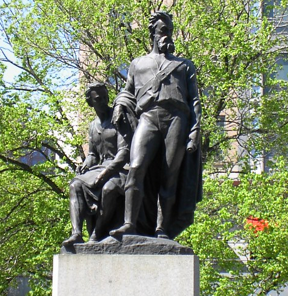 This photo was taken by me, User:Adam Carr, and is released by me into the public domain